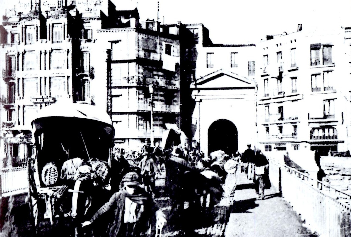 LLeida